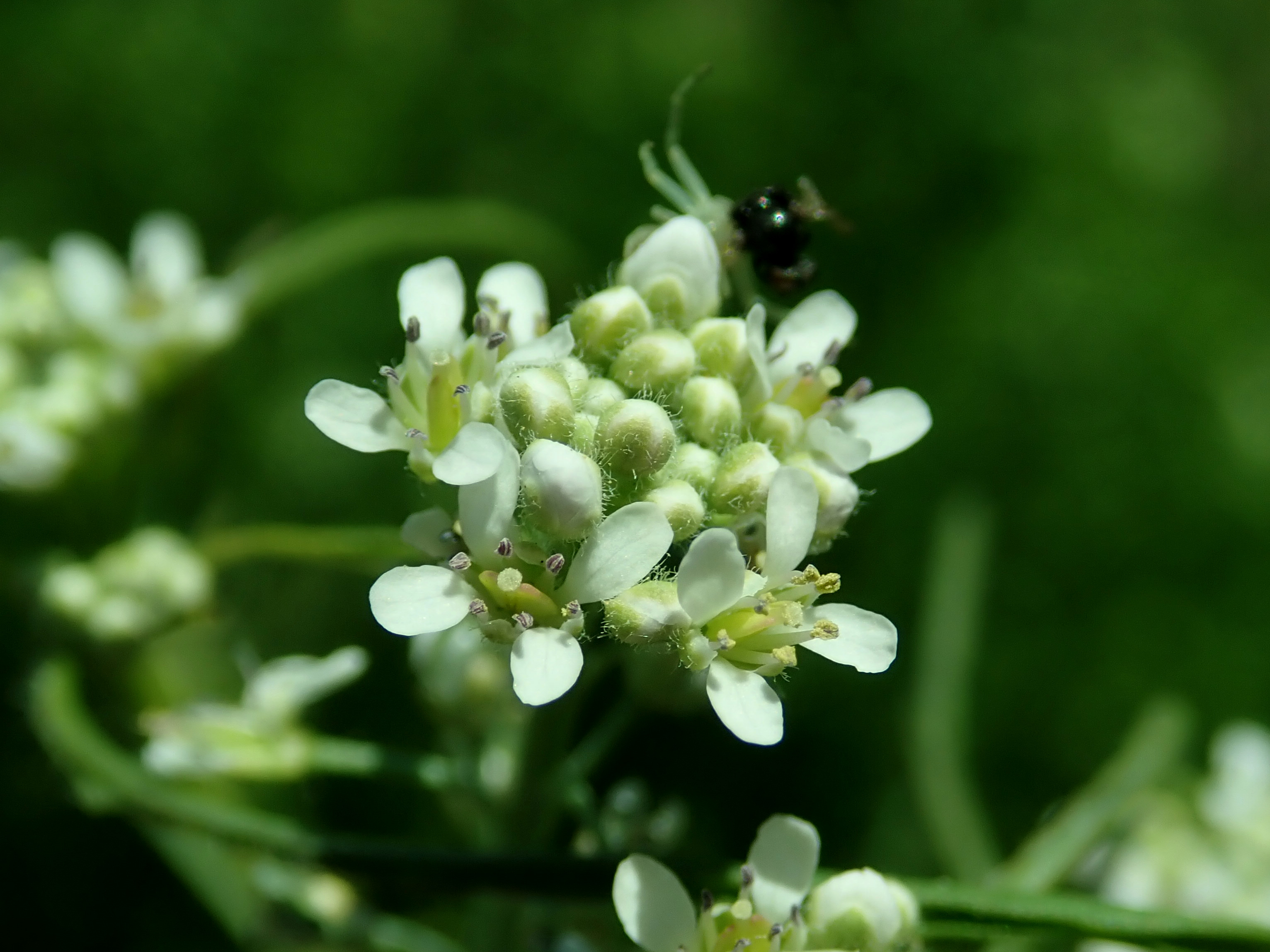 Lepidium sativum, allotment garden in Szczecin, West Pomeranian Voivodeship, Poland.